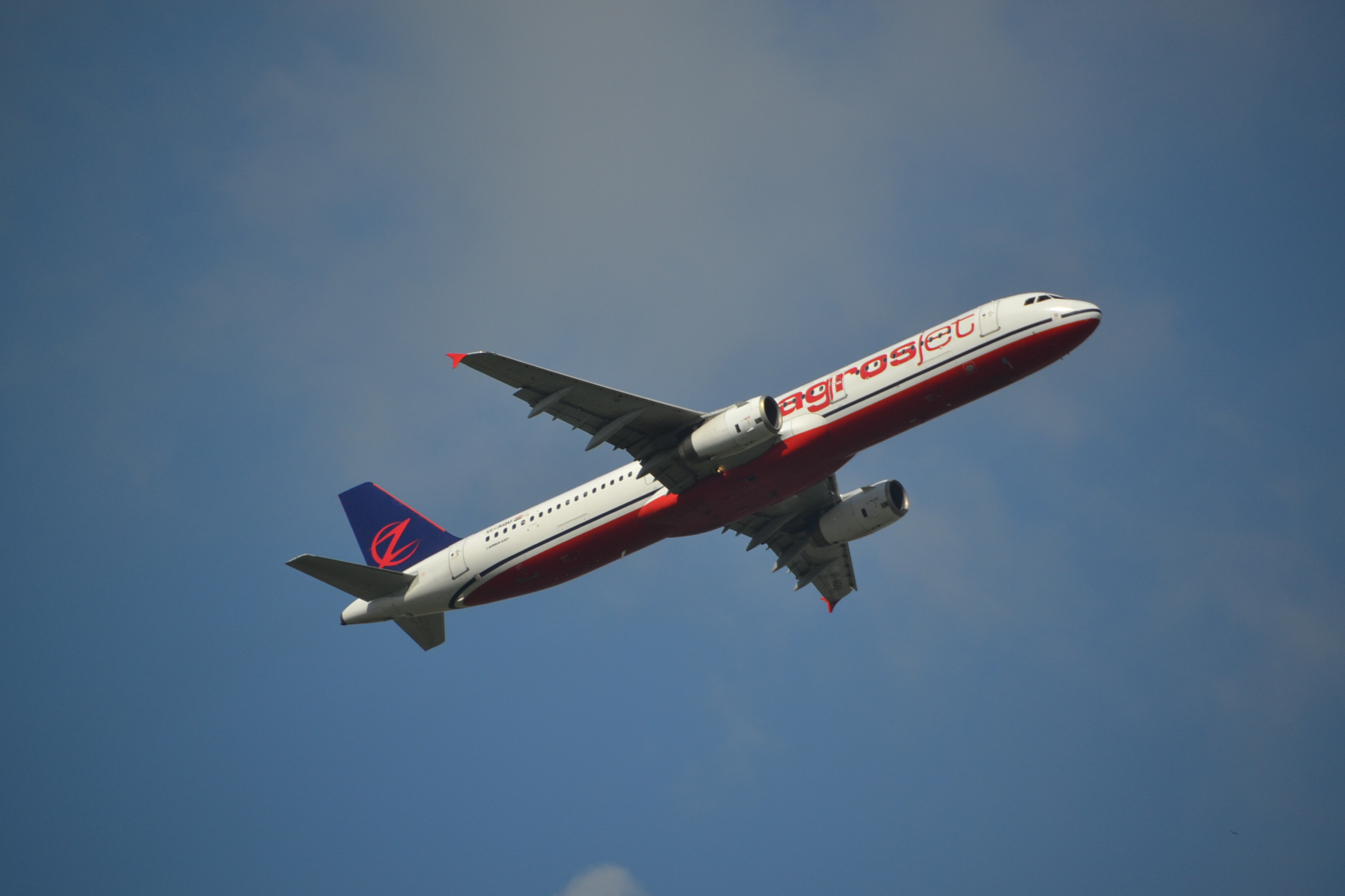 Airbus A321 of Zagrosjet climbing out off rwy.09 at Amsterdam Schipol-AMS,11/09/14.